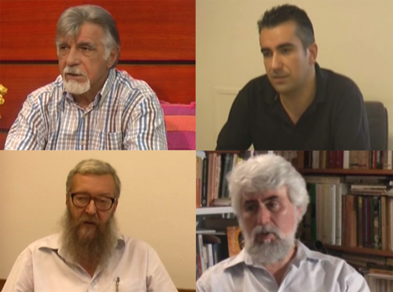 Speakers of documentary "Stari Sloveni - istorija i tradicija"